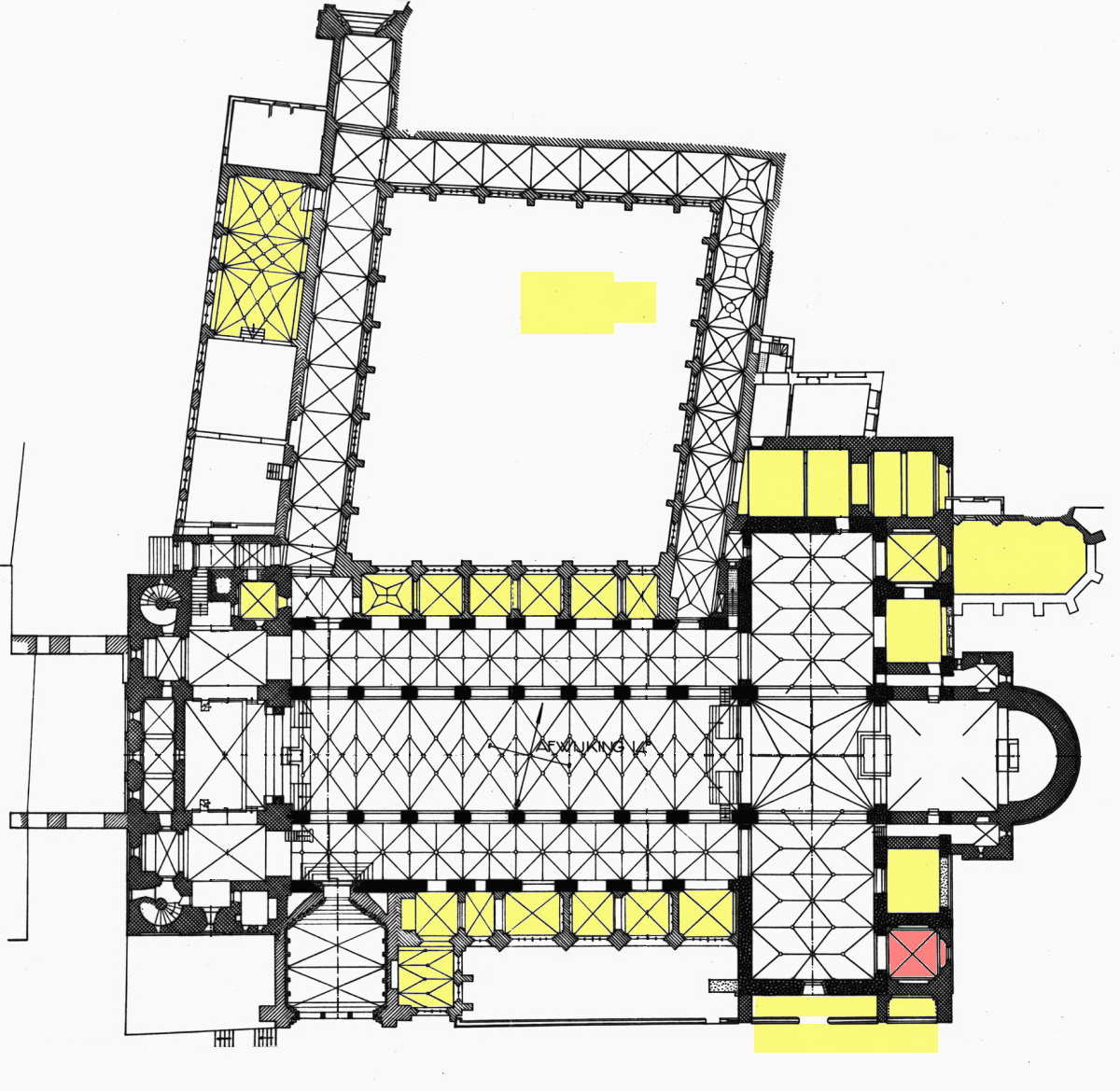 Locator map of chapels of the Basilica of Saint Servatius in Maastricht, the Netherlands. This map by an unknown author was first published in 1926 in Van Nispen tot Sevenaers De monumenten in de gemeente Maastricht, Deel 1, and donated to Wiki Commons by Rijksdienst voor het Cultureel Erfgoed on 7 January 2013. All colouring and other edits are by Kleon3. In yellow all 17 chapels of Sint-Servaasbasiliek in past and present. In red the chapel of the Holy Face, the southern most of the transept chapels.